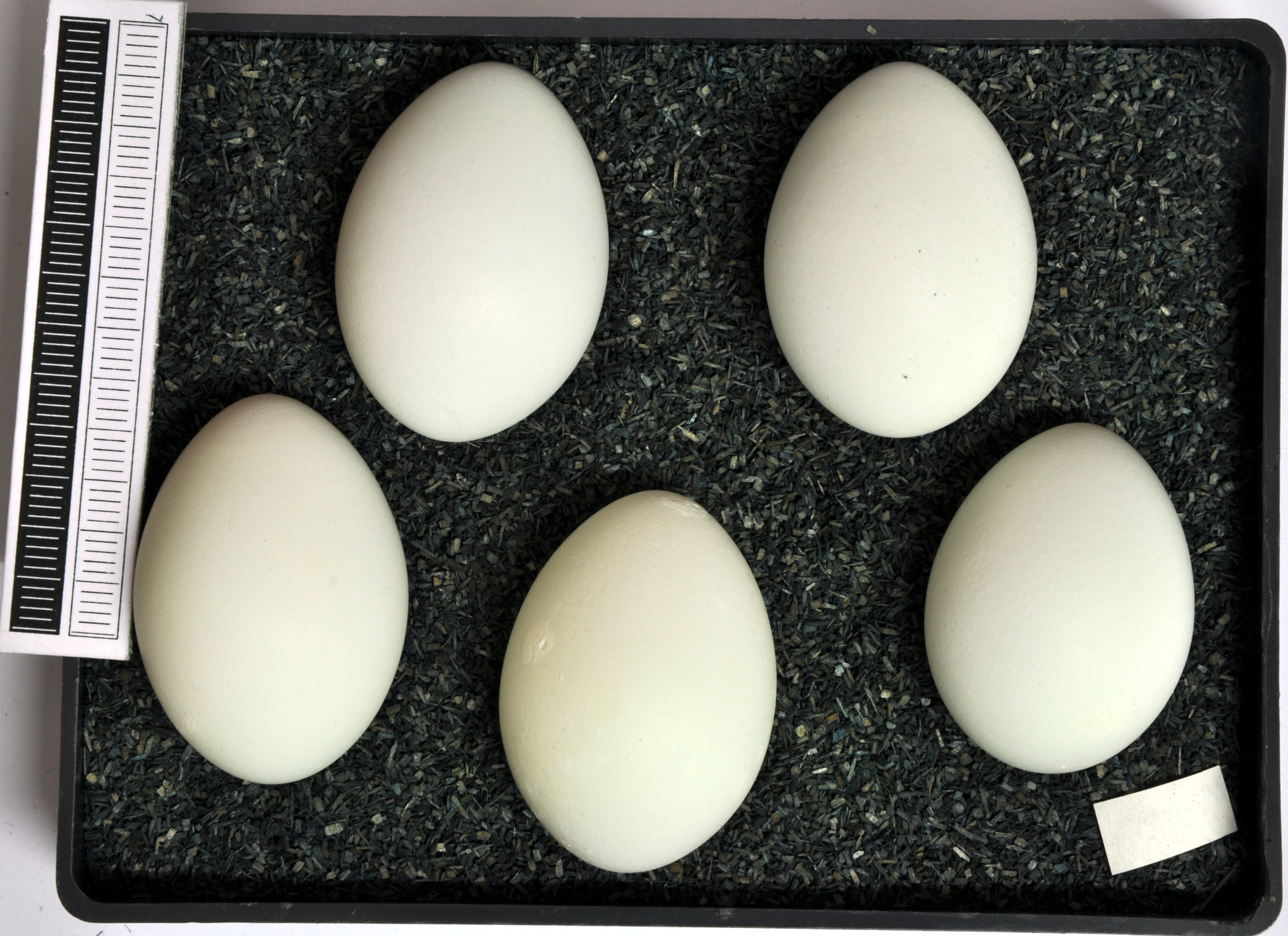 Little grebe Tachybaptus ruficollis, egg, Coll. Museum Wiesbaden, Origin: Tarquinpol, France, 28.05.1972, leg. W. Abelmann